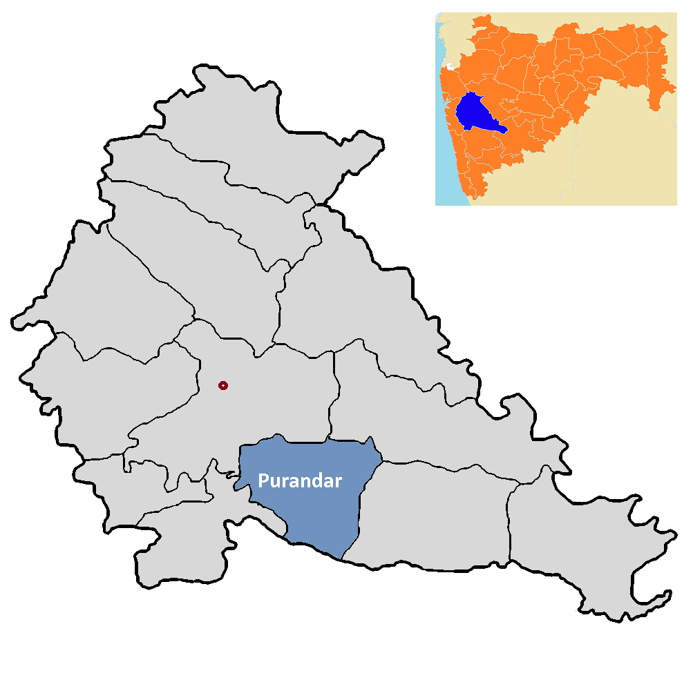 Purandar tehsil in Pune district